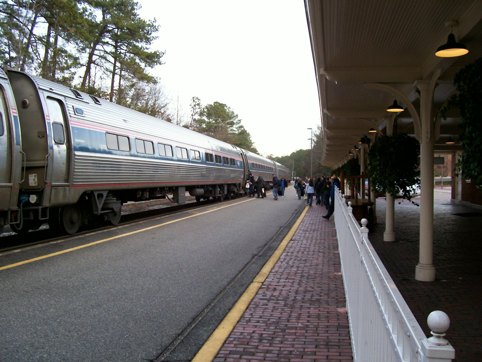 Northbound Regional #66 at Williamsburg station in February 2008